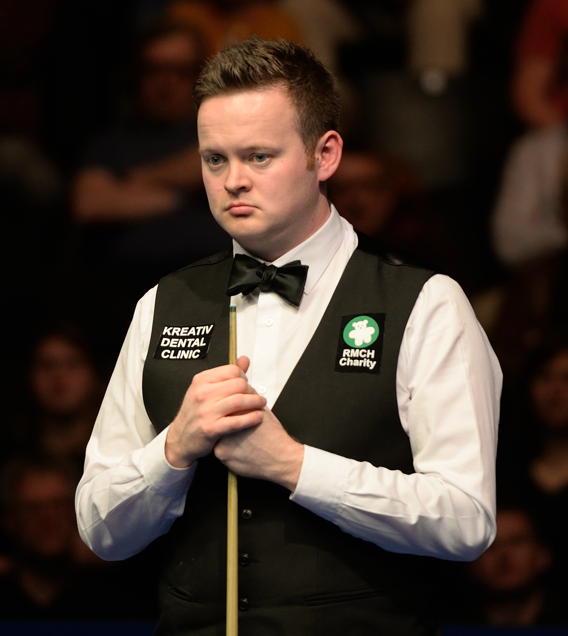 Picture taken in Berlin during the Snooker German Masters in 2015. Shaun Murphy.